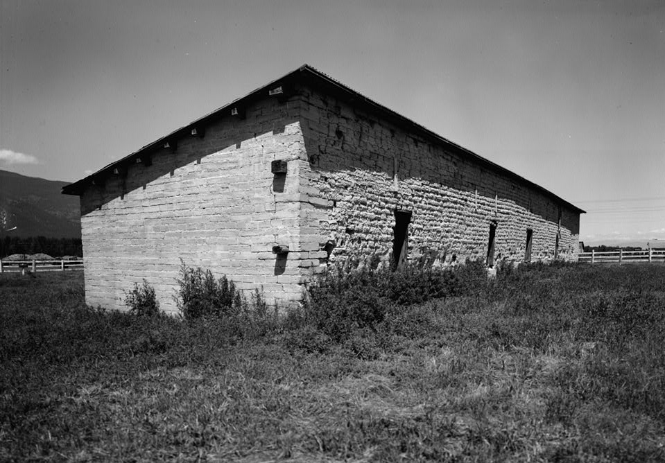 East barracks at Fort Owen, a former United States Army fort northwest of Stevensville in Ravalli County, Montana, United States. The fort complex (now Fort Owen State Park) is listed on the National Register of Historic Places.